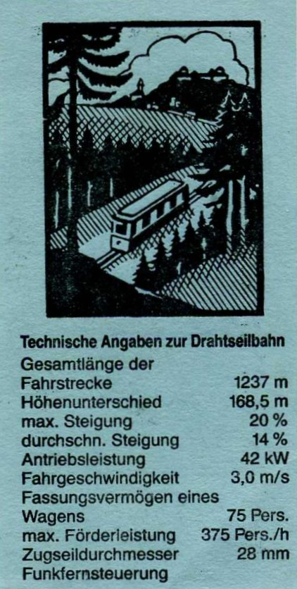 Reverse side of a ticket for the Funicular railway between Erdmannsdorf and Augustusburg in Saxony, Germany. The front side of the ticket is here